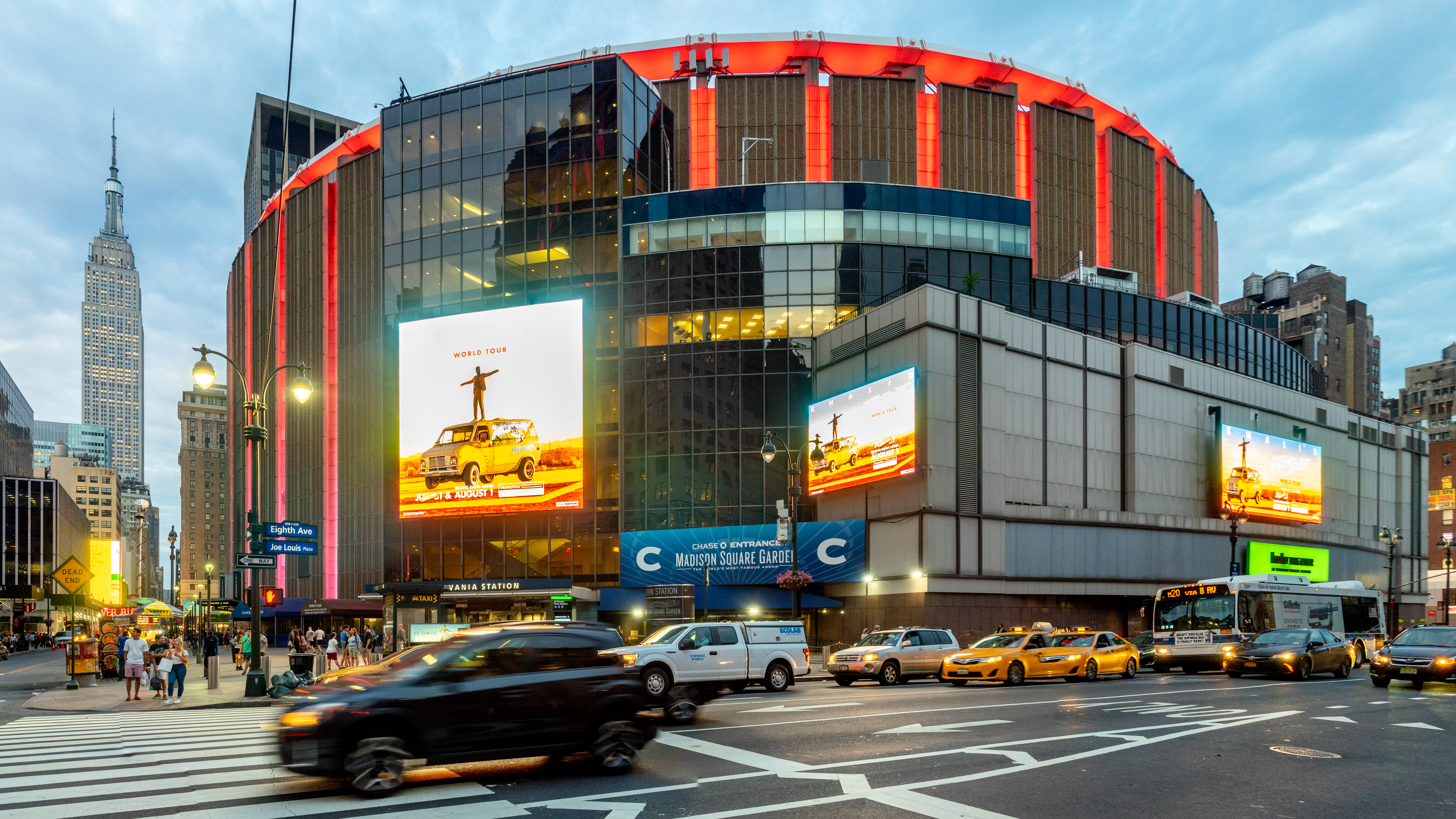 Midtown Manhattan , NYC